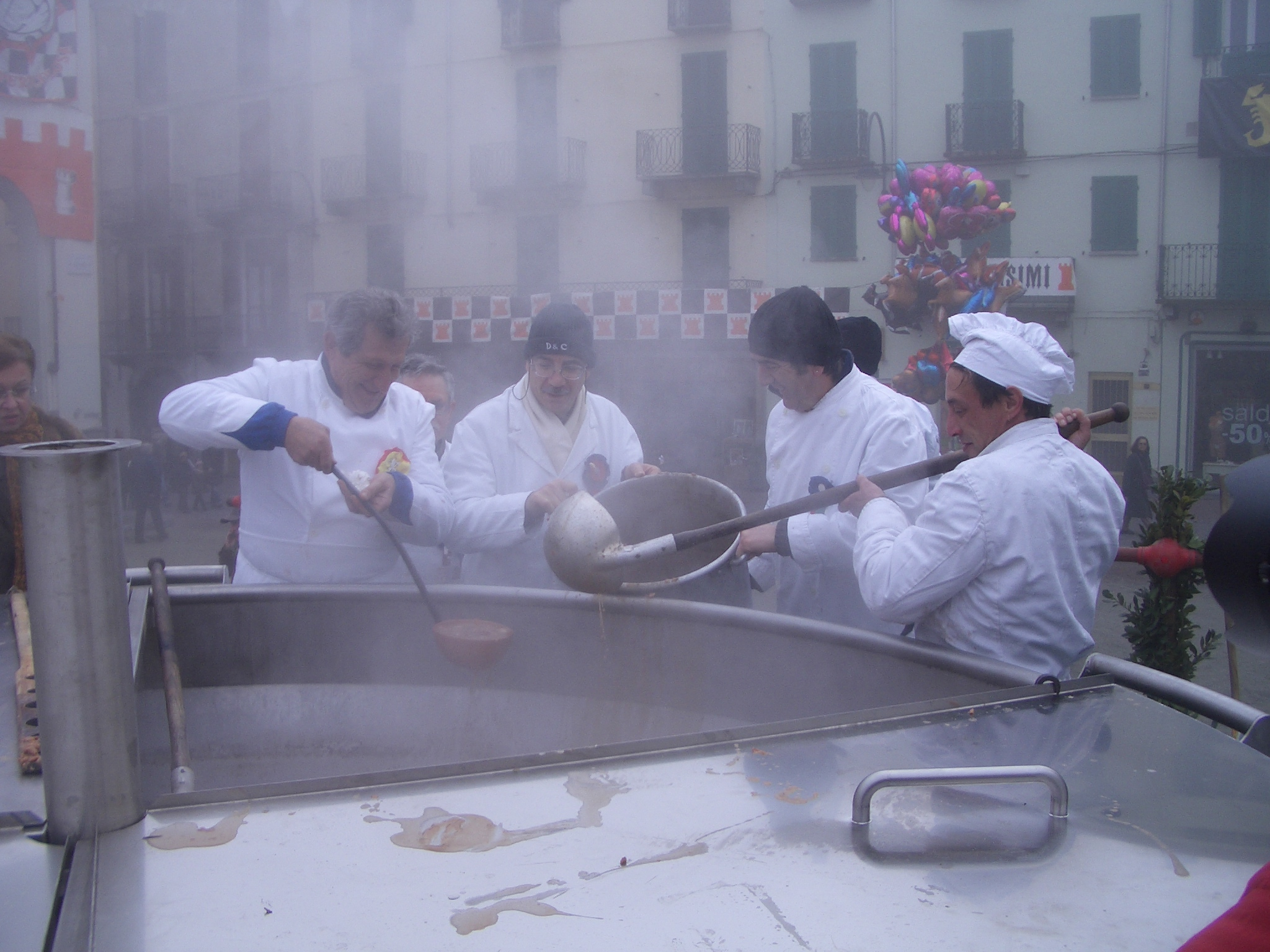 Carnival of Ivrea, Fagiolata ( Preparing the bean soup)